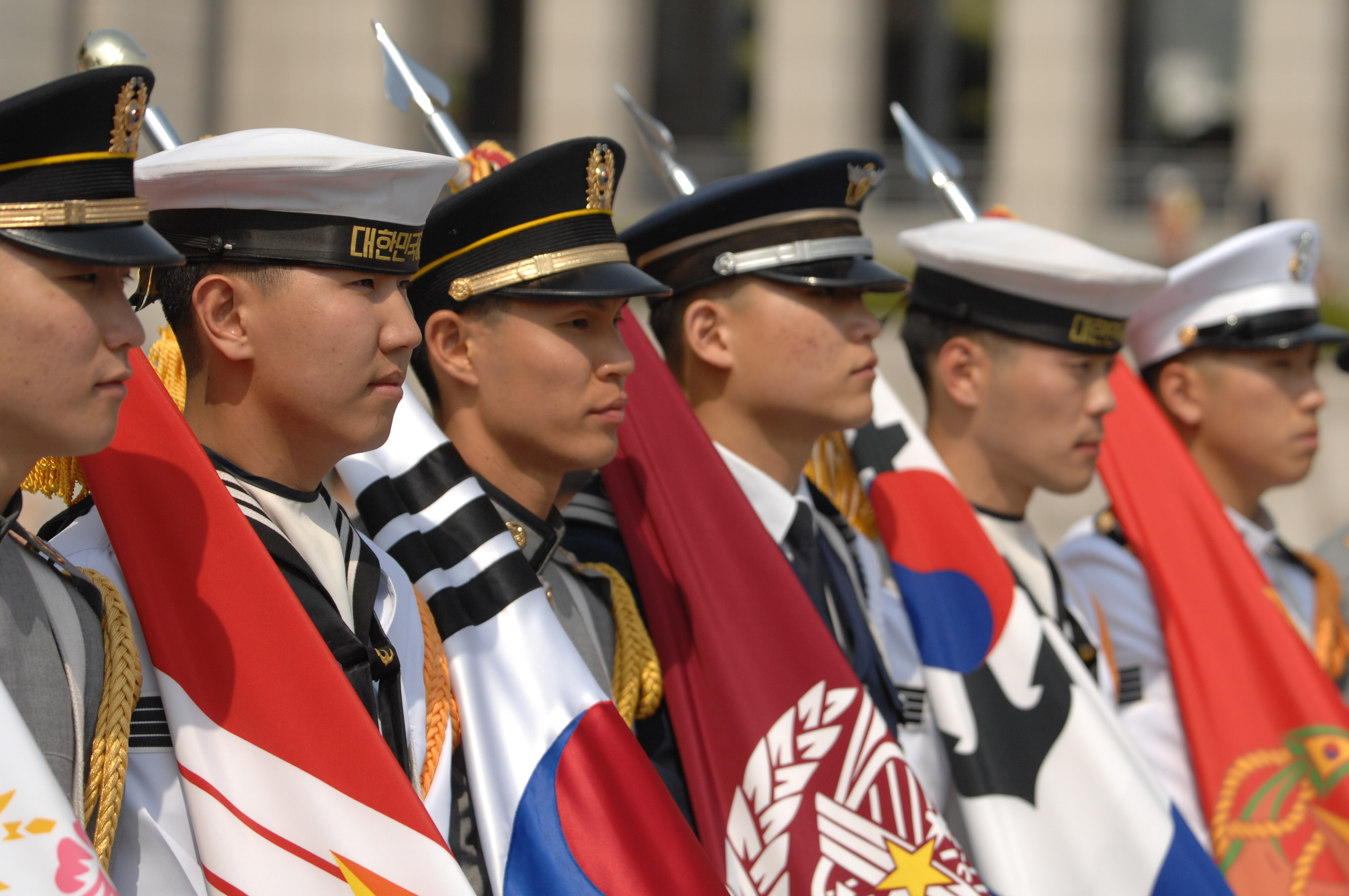 War Memorial of Korea - Honor Guard Ceremony